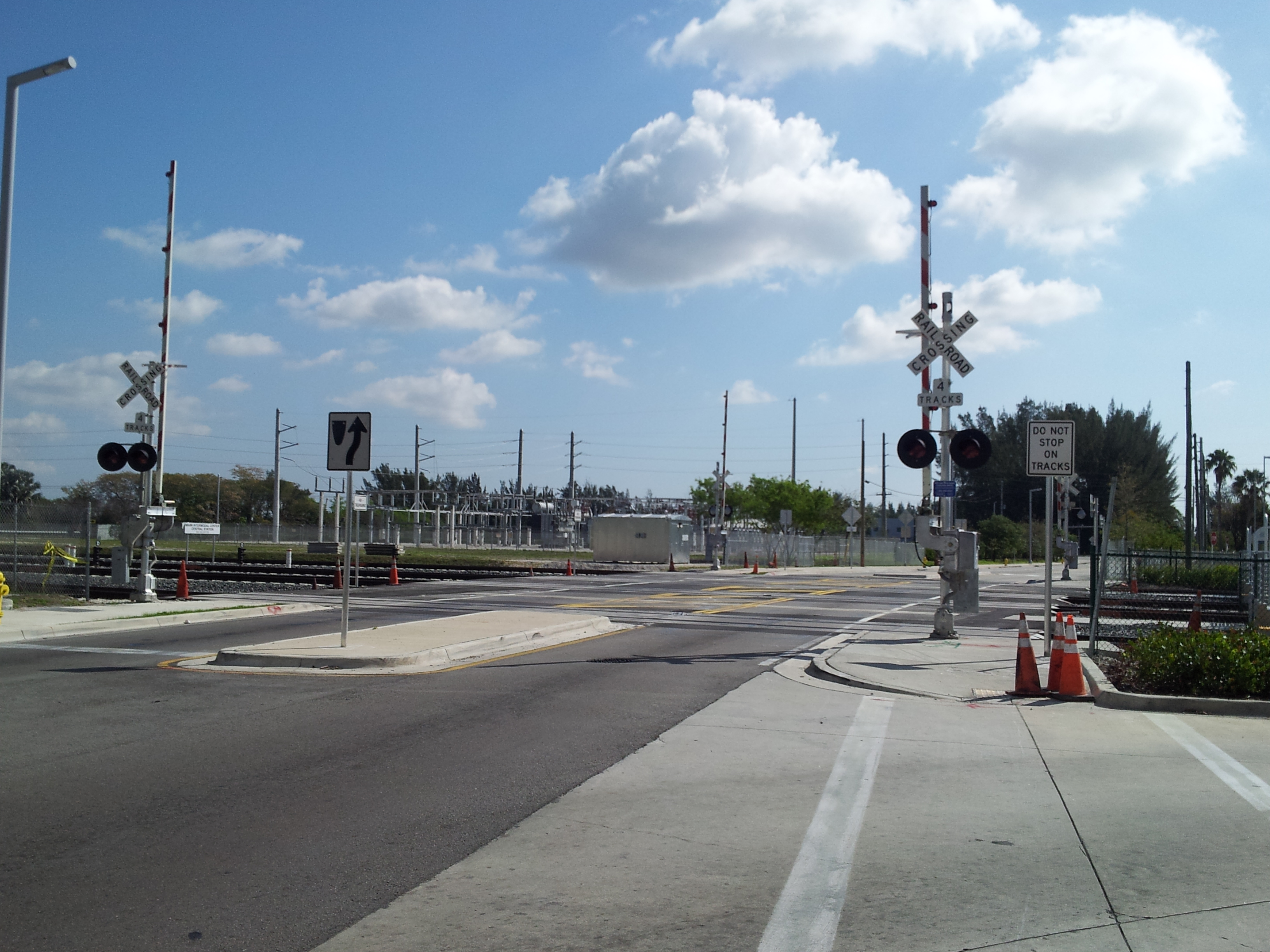 Since the platforms were deemed too short for Amtrak trains, NW 25th Street will close for about 45 mins several times per day once Amtrak service begins.